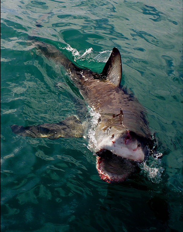 Great white shark, also known as the great white, white pointer, white shark, or white death (Carcharodon carcharias), Taken from cage diving boat in Gansbaai, Hermanus near Cape Town South Africa.